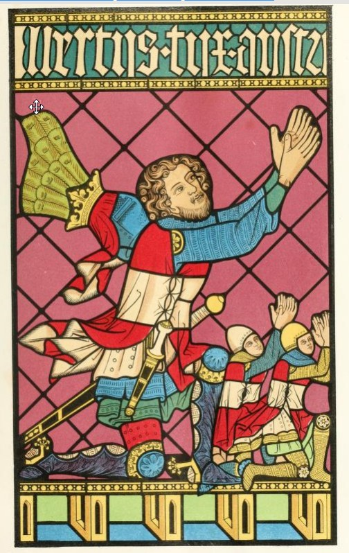 Albrecht II, Duke of Austria